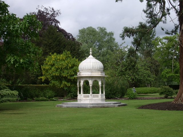 Indian Kiosk, Frogmore House Gardens, Windsor